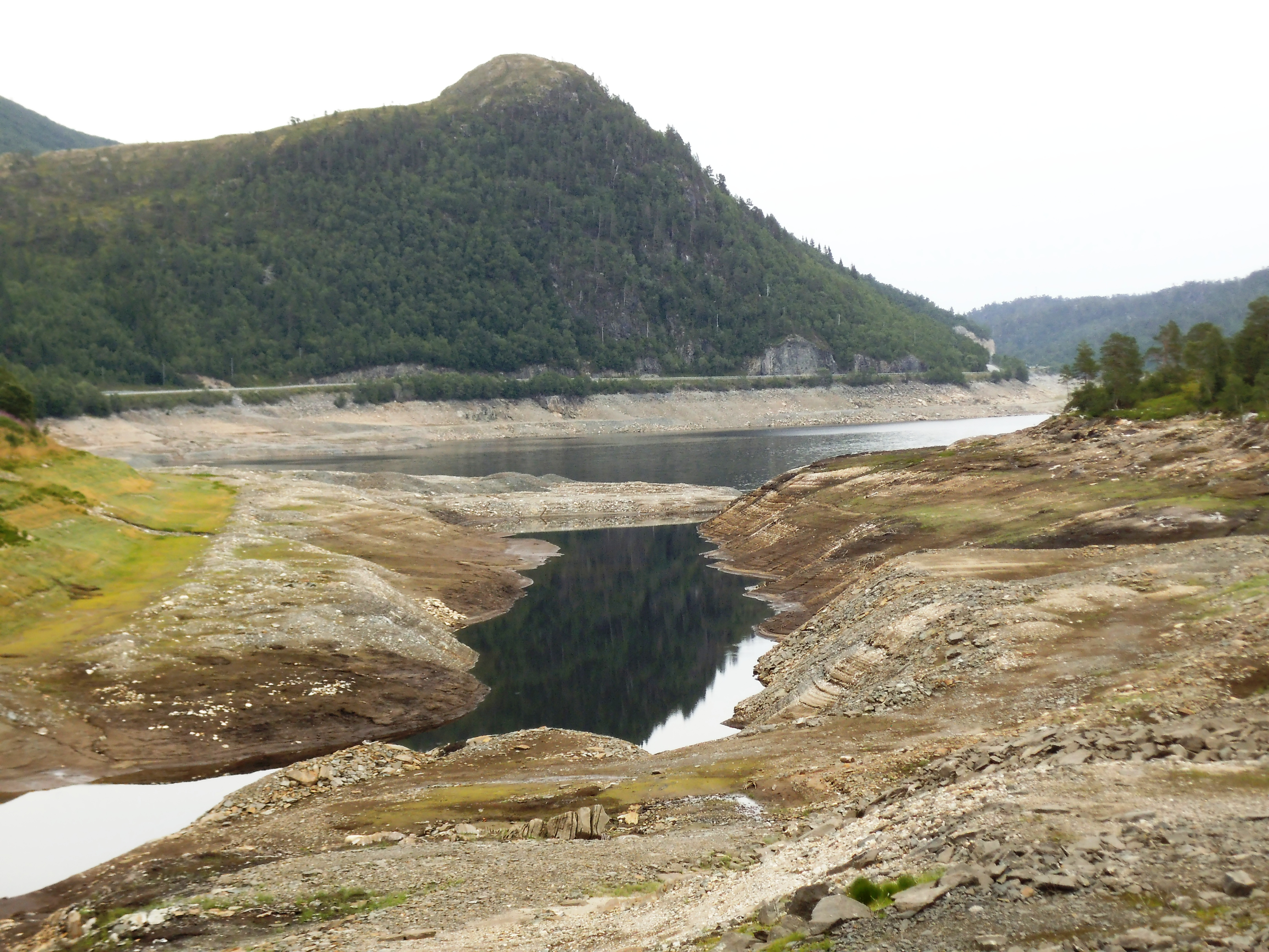 Vasslivatnet is a lake in Hemnekjølen, Norway. This is the western part of the lake, close to the dam (Søa kraftverk).